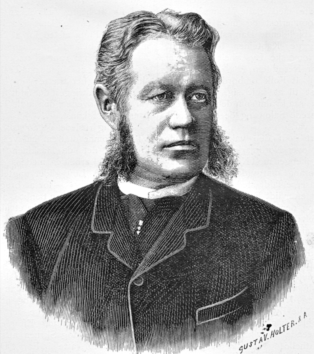 Didrik Cappelen (1836-1914), Norwegian estate owner, businessman and politician (Høyre, Conservative Party) from Skien. Member of Parliament 1883-1885. Engraving by Gustav Holter (born 16. October 1859 - died 13. June 1940) published 1891 in the journal Skilling-Magazin.